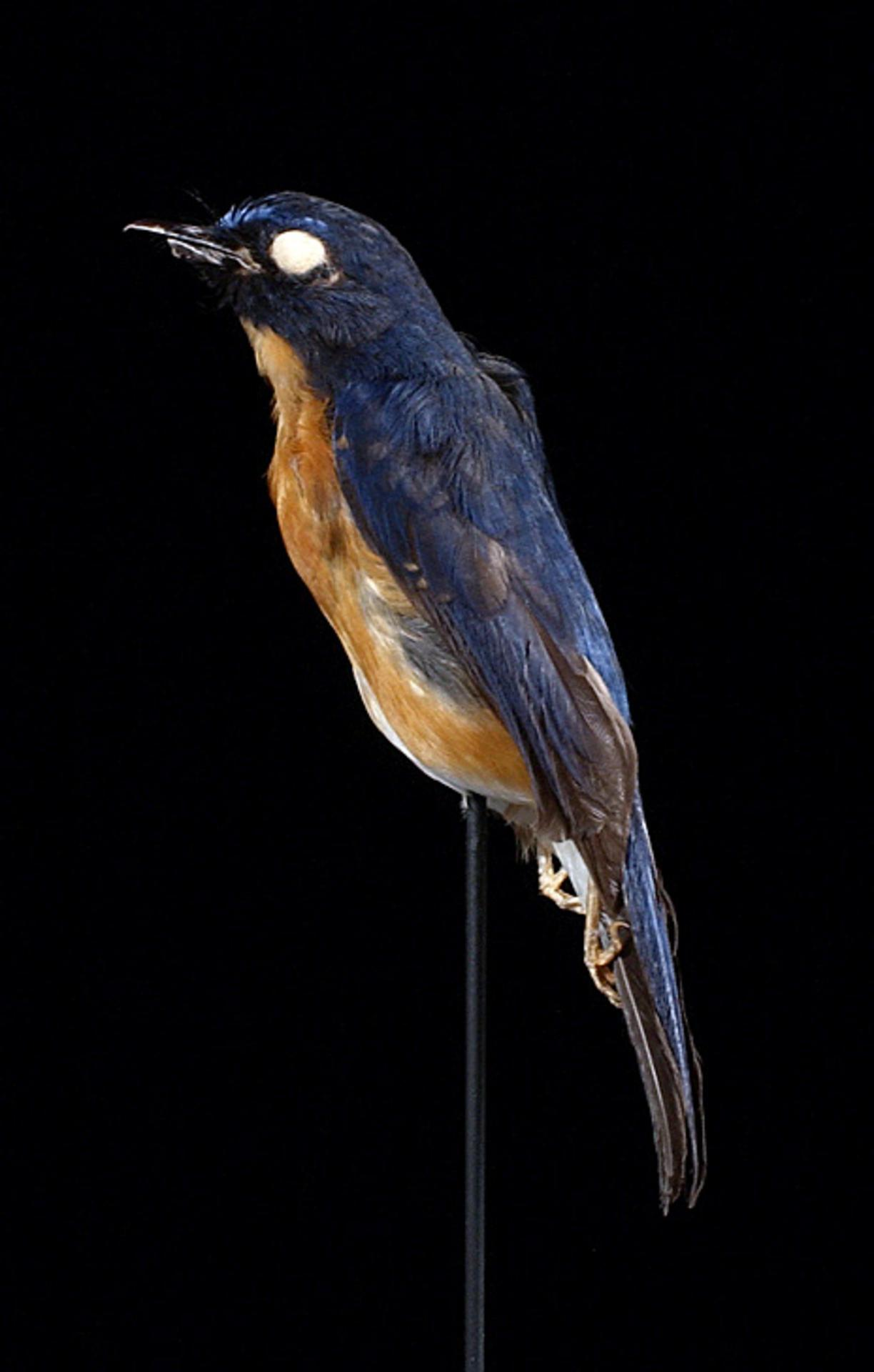 Cyornis caerulatus albiventer Junge, 1933